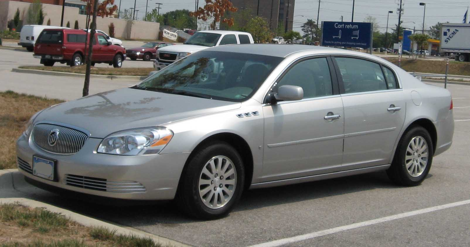 2006 Buick Lucerne photographed in USA.